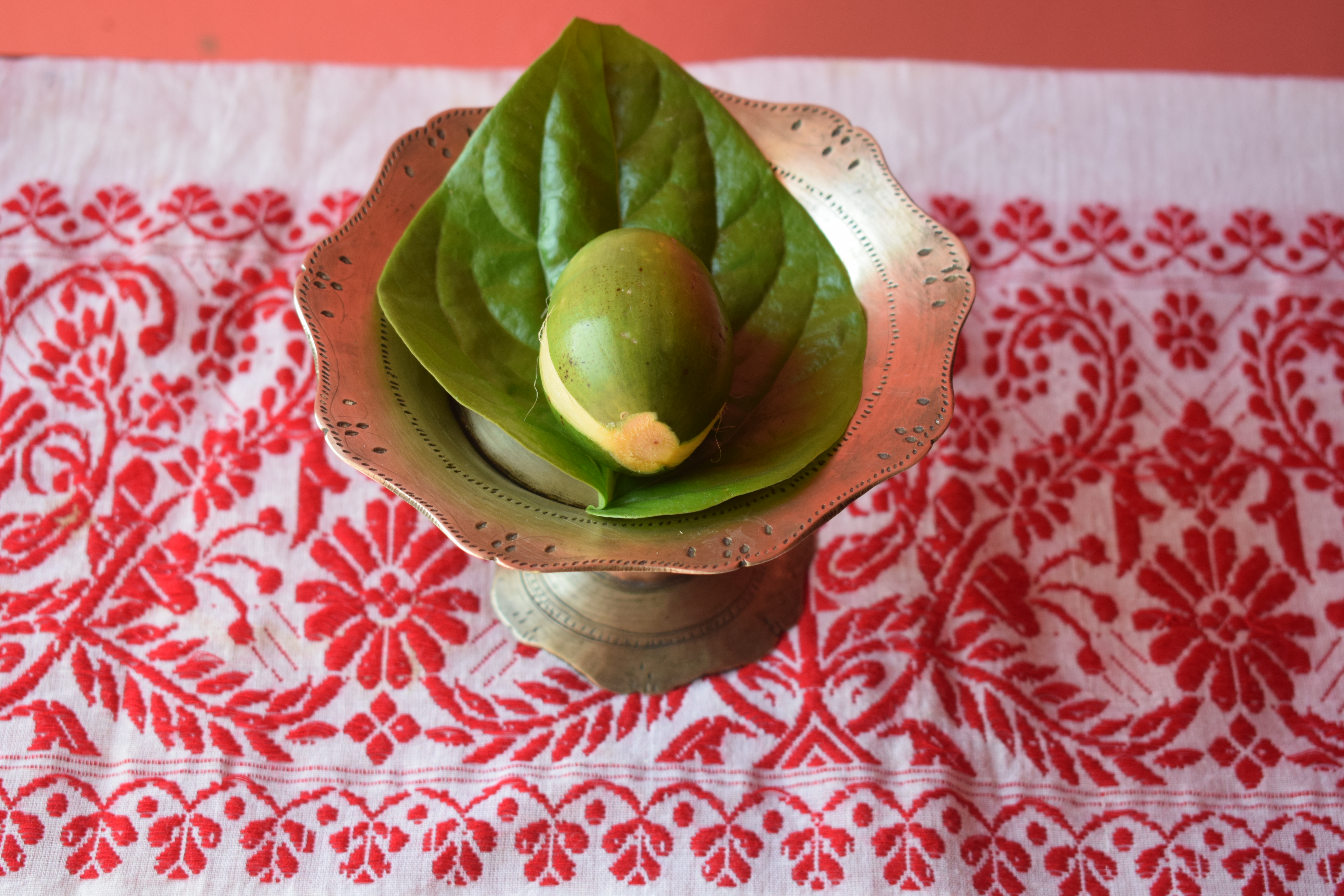 Tamul Paan(Areca Nut and Betel Leaf) is considered as an offering of devotion, respect and friendship in Assam. অসমীয়া: তামোল-পাণৰ অসমীয়া সমাজত এক বিশেষ স্থান আছে। সন্মান প্ৰদৰ্শন কৰিবলৈ তথা শ্ৰদ্ধা দেখুৱাবলৈ তামোল-পাণ আগবঢ়োৱা হয় This photo has been taken in the country: India